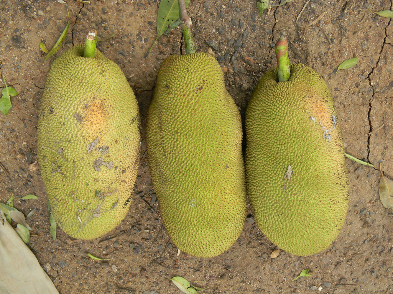 ଓଡ଼ିଆ: Panasa This media file is uploaded with Odia loves Wikipedia